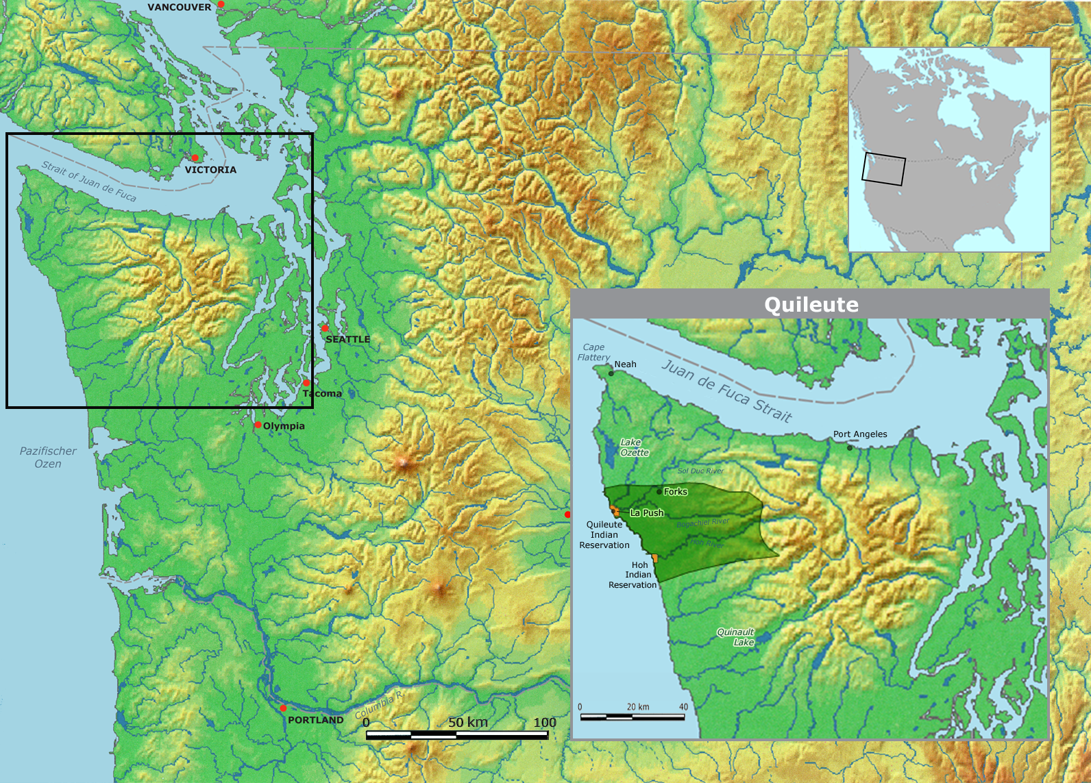 Map of Quileute traditional tribal territory and reservation